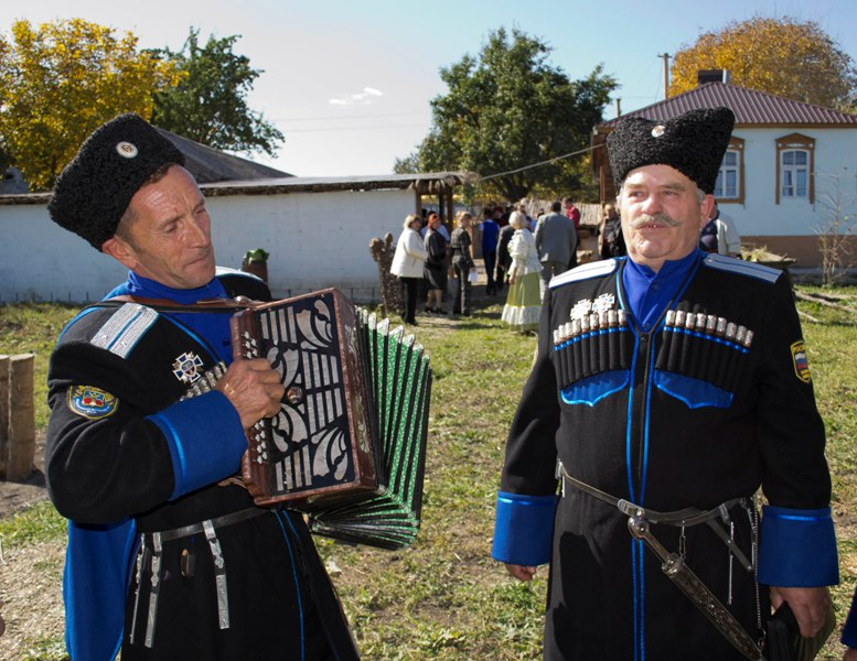 Terek Cossacks